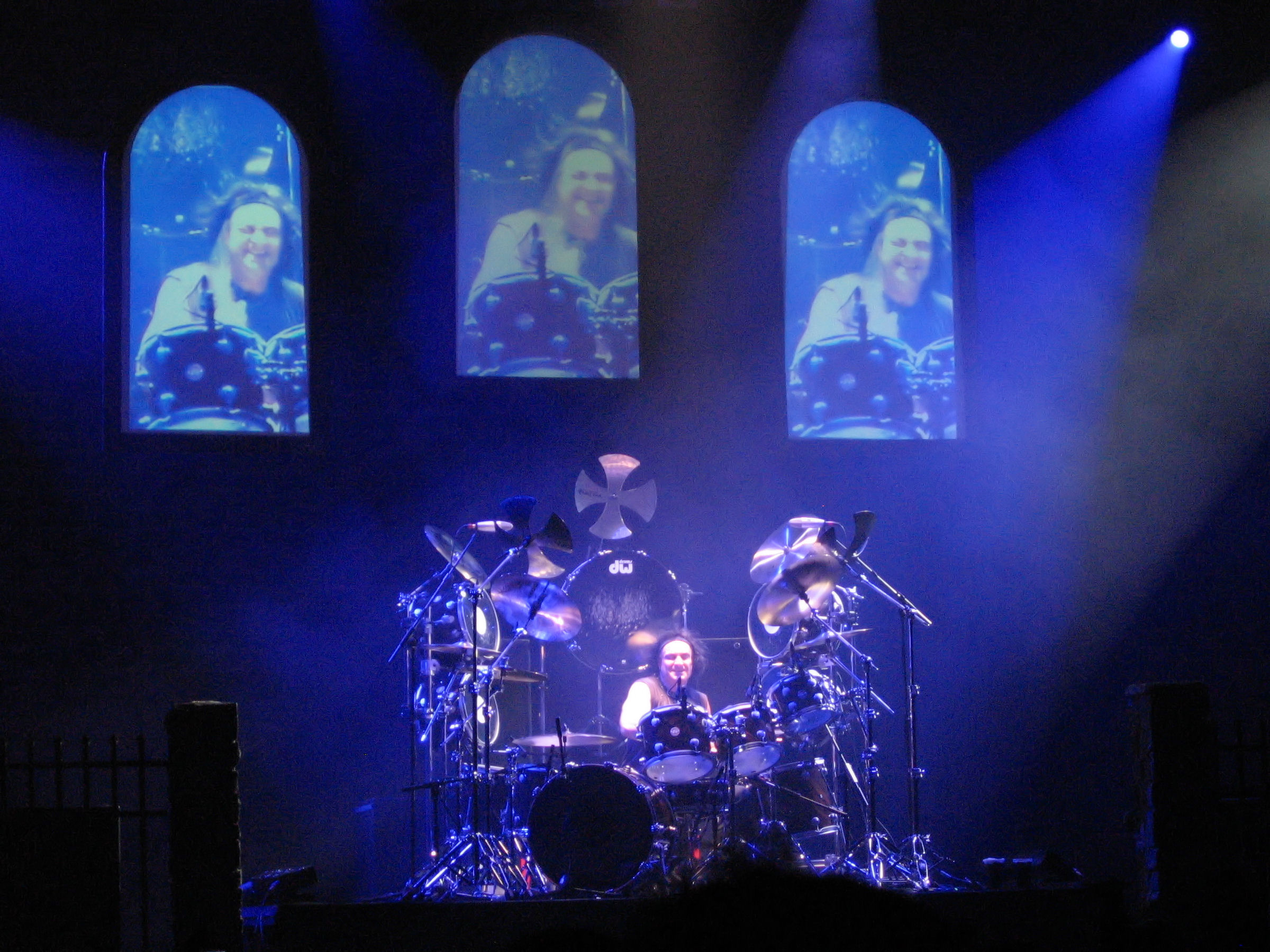 Vinny Appice from Heaven and Hell during concert in Katowice Spodek 20.06.2007